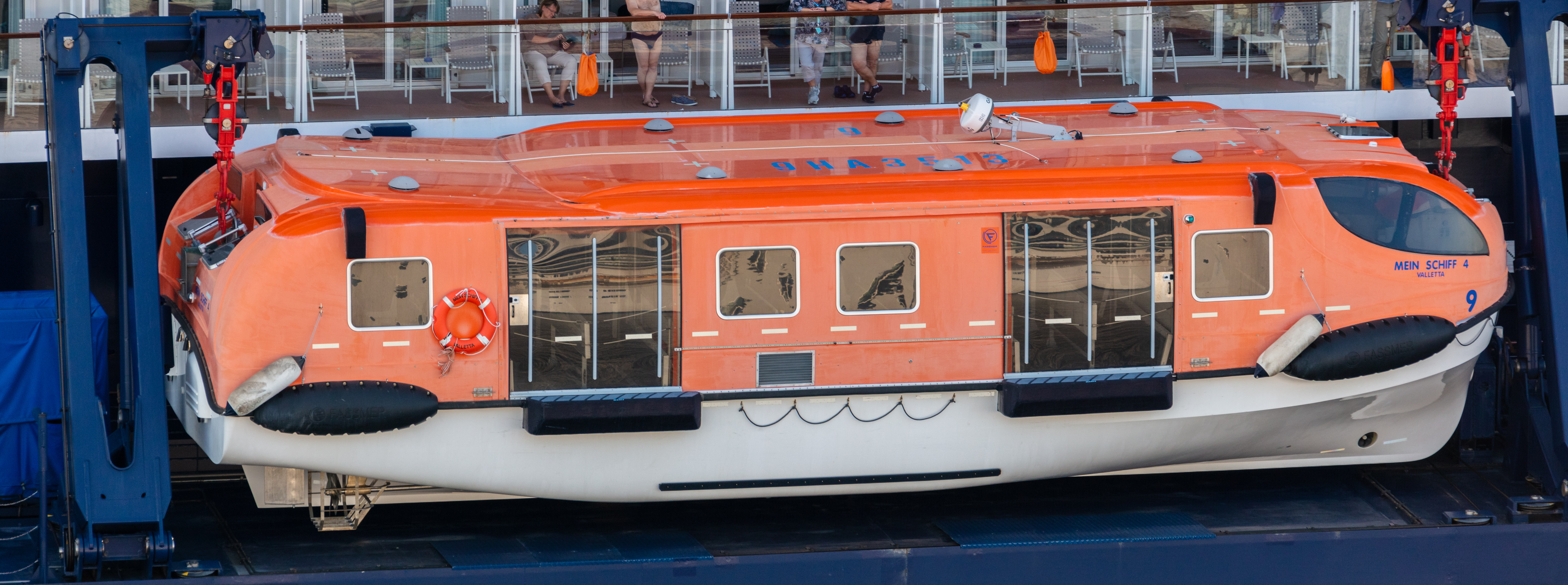 Lifeboat of ship Schiff 4, Kiel, Germany